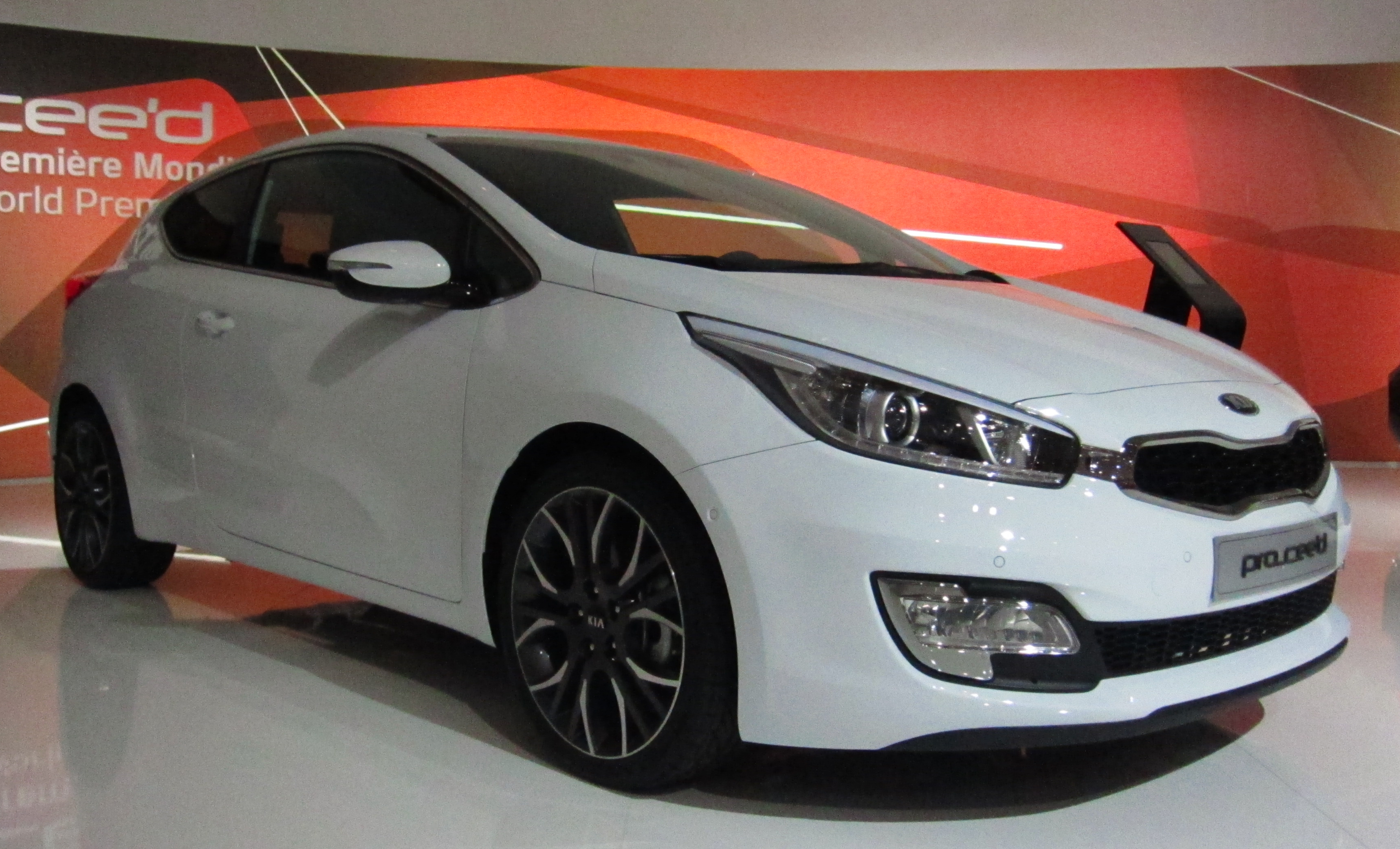 Kia pro_cee'd II at Mondial de l'Automobile Paris 2012